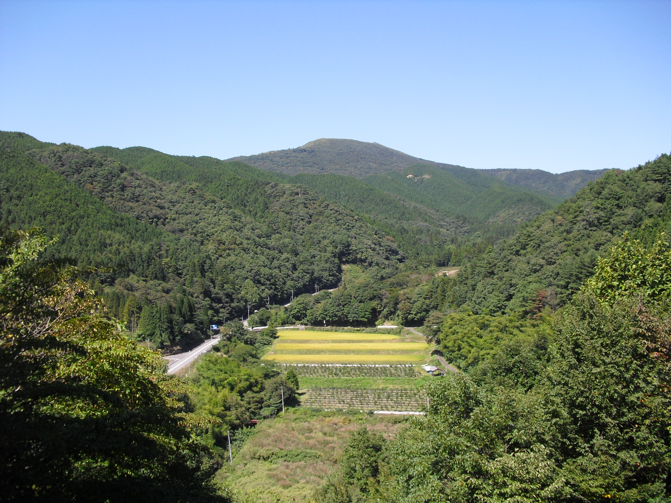 Mount Adzuma as seen from the SSE in the border between Hiroshima and Shimane prefectures, Honshu, Japan.